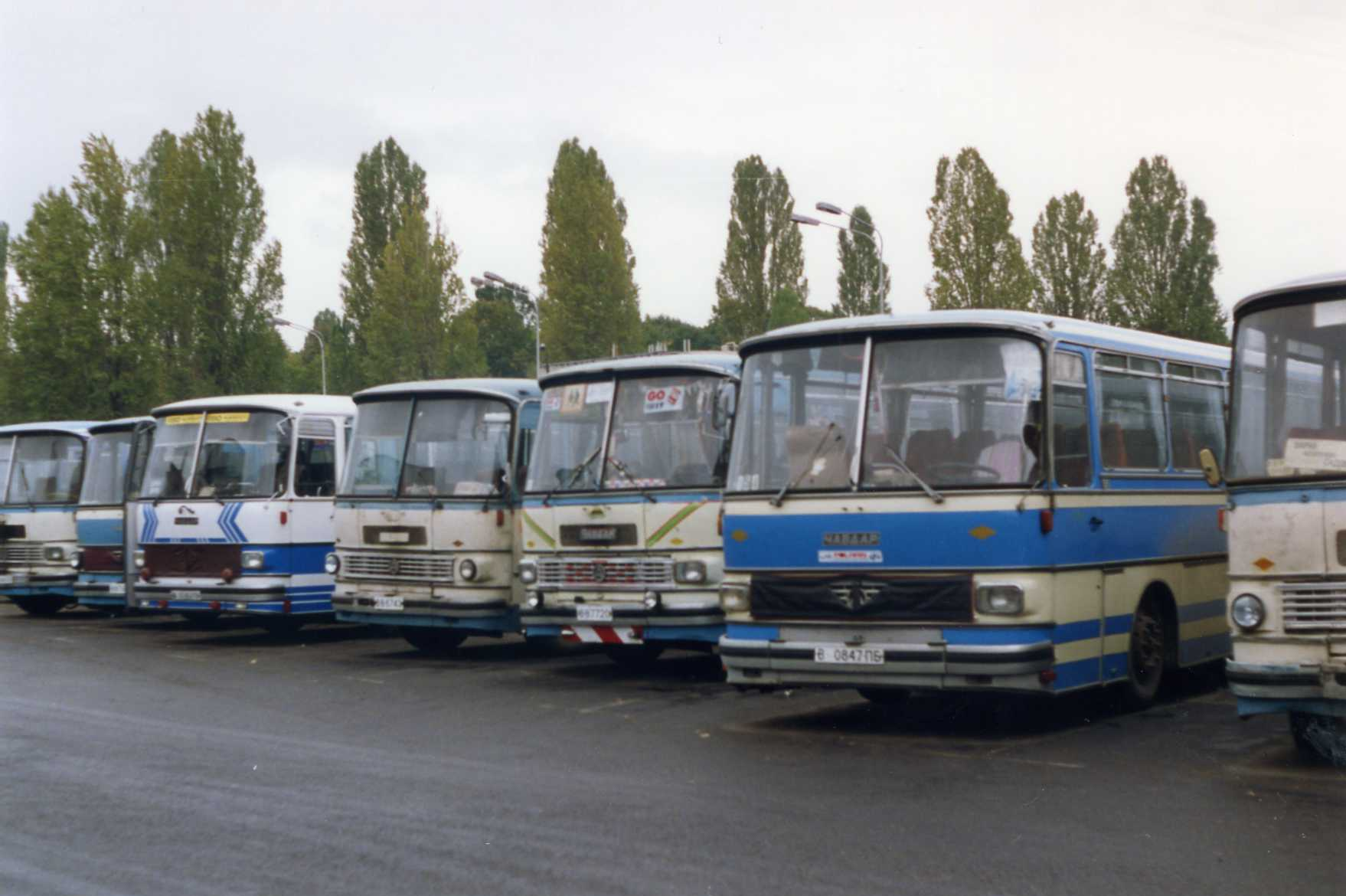 Czavdar 11M3 and 11M4 buses in Varna, Bulgaria in October 1993.